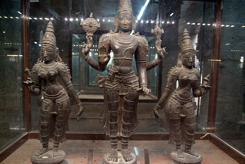 Lord Vishnu with Concerts Idol in 1000 Pillars Hall, Meenakshi Temple, Madurai, Tamilnadu, India